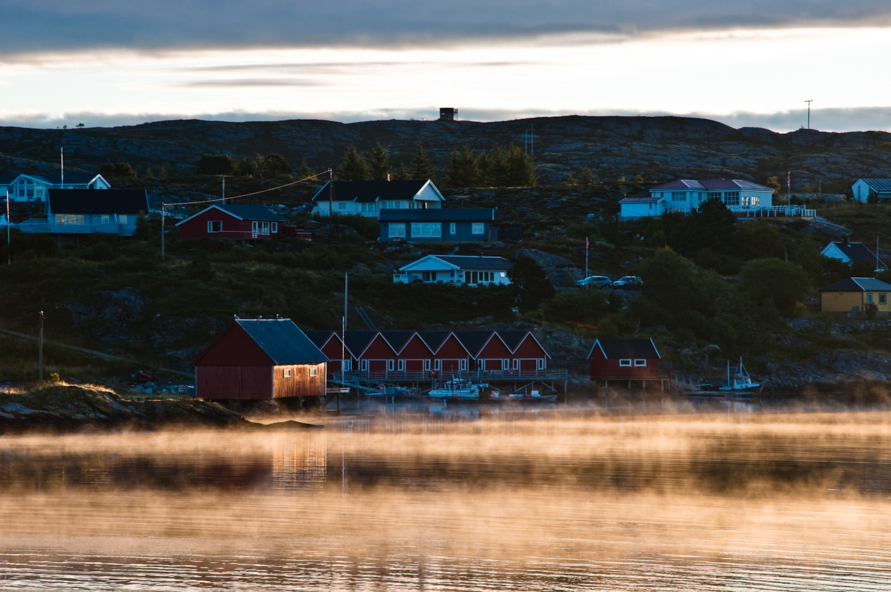 Foggy morning in Knarrlagsund, Norway